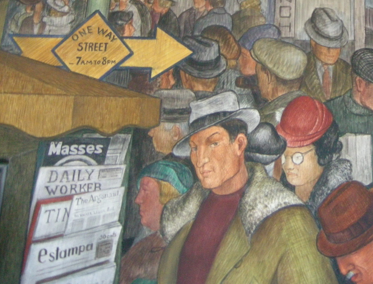 Victor Arnautoff, painter of the City Life mural in Coit Tower, included himself in the mural, near a magazine rack containing socialist/communist magazines. Crop from a larger photo elsewhere in commons.